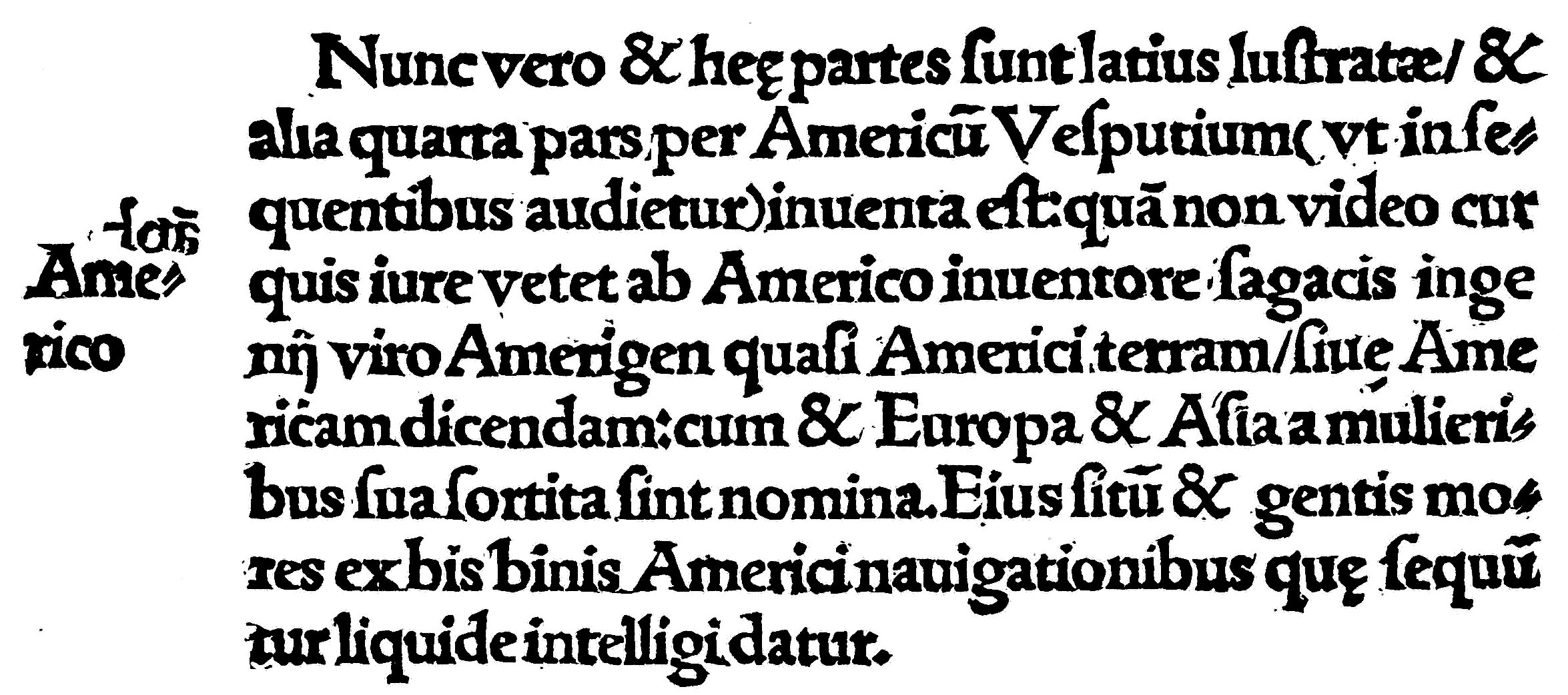 Scan from "Narrative and critical history of America, Volume 2" by Justin Winsor. Scans for whole book are at